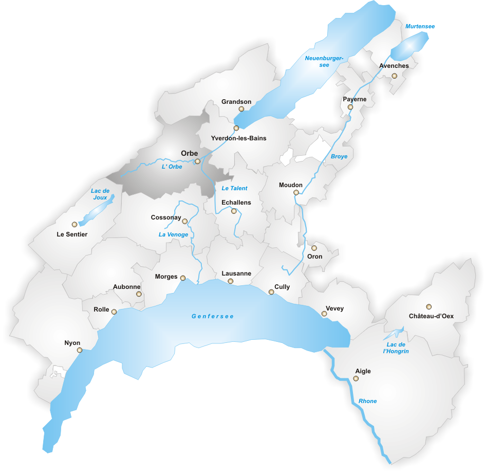 District Orbe until 2007